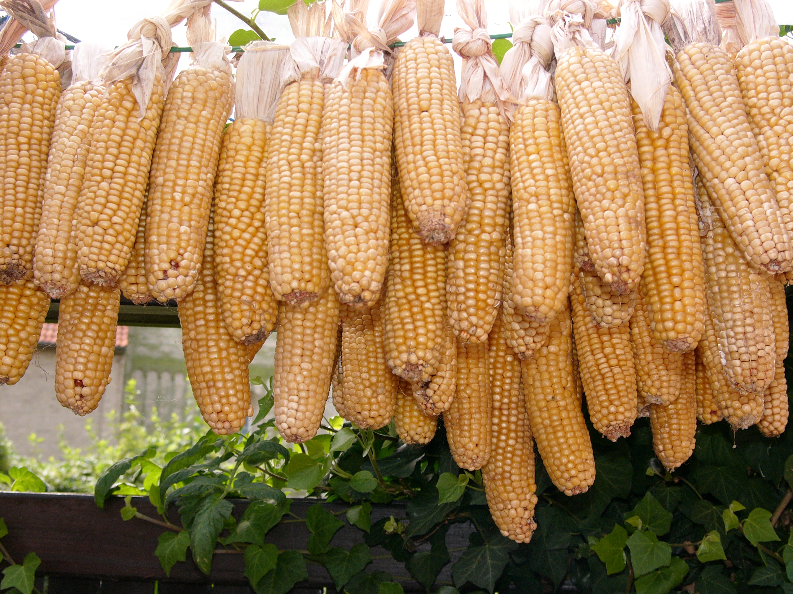 Corn, prepared for drying